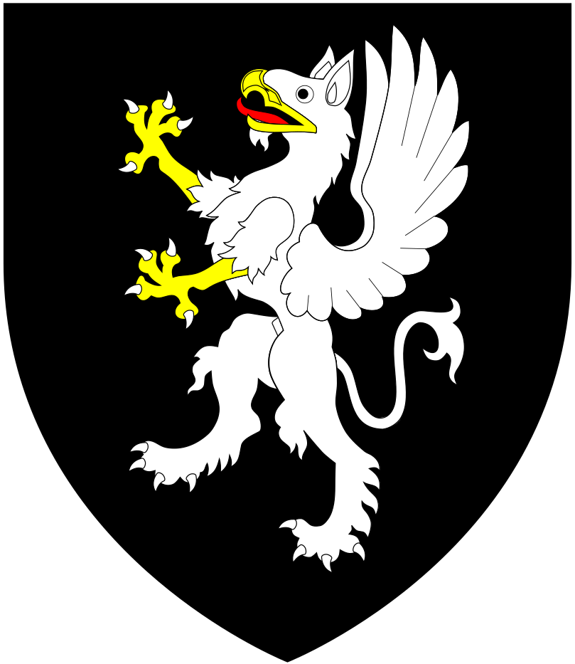 Canting arms of Griffin: Sable, a griffin segreant argent beak and forelegs or , as borne by John Griffin Griffin, 4th Baron Howard de Walden (born Whitwell) (1719-1797); (Source: Debrett, J., The Peerage of England, Scotland, and Ireland: The peerage of England, London, 1790, p.395[1] as visible in Audley End House, Essex[2])